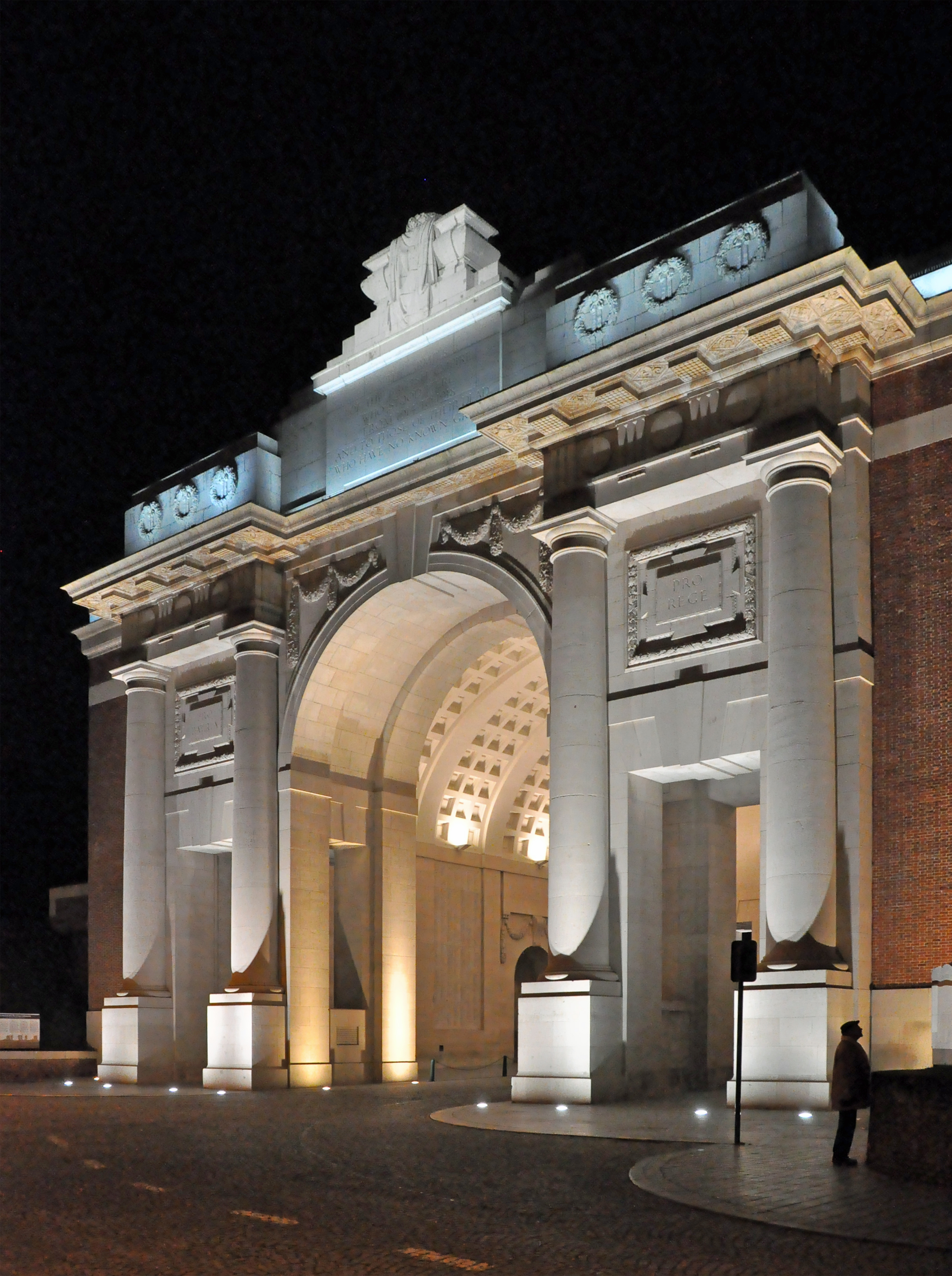 Ypres (Belgium): Menin gate